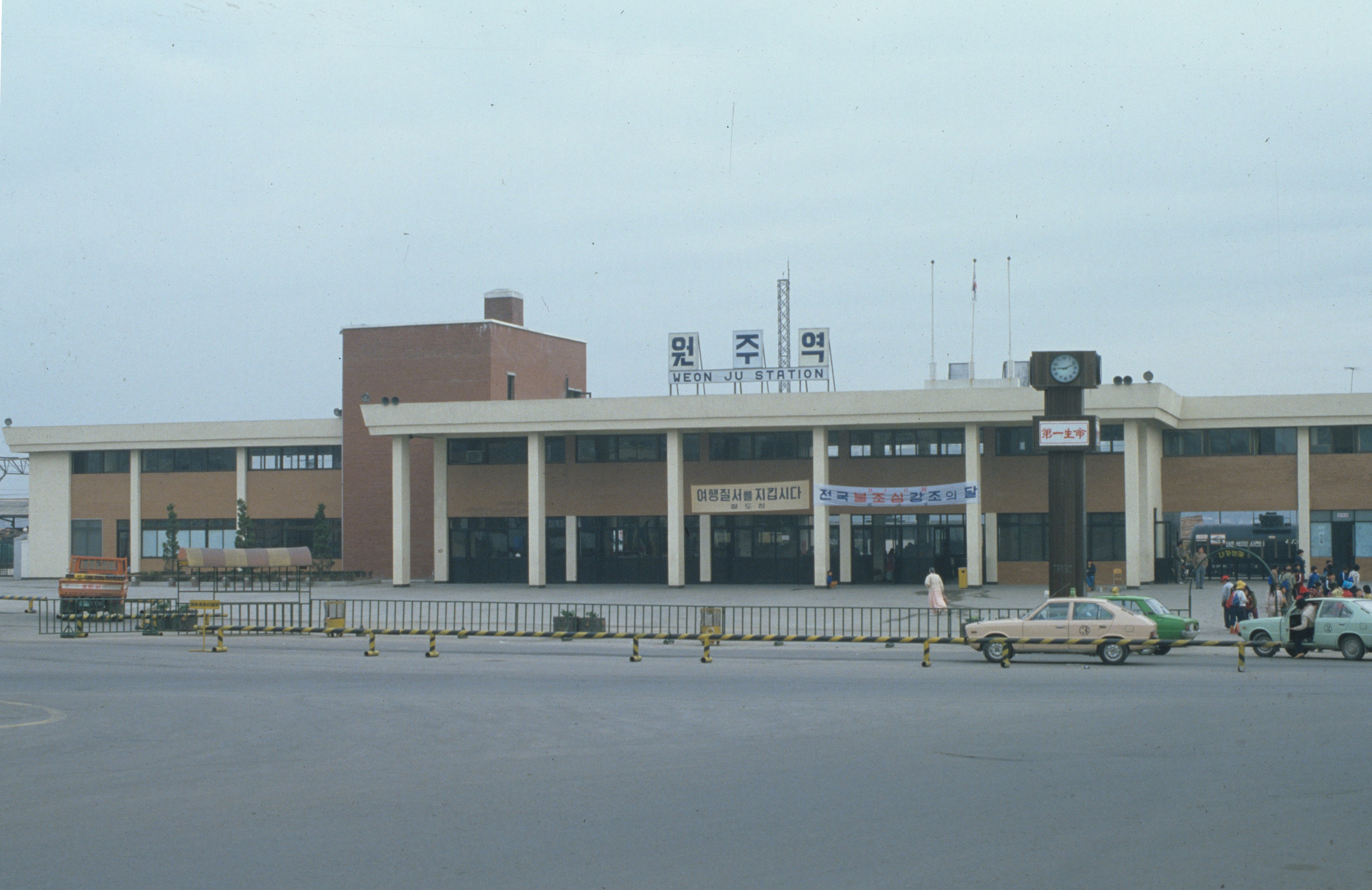 Jungang Wonju Station(Novemver 1980)